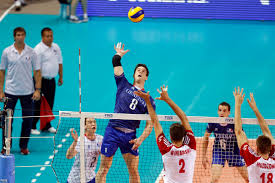 volleyball wikipedia